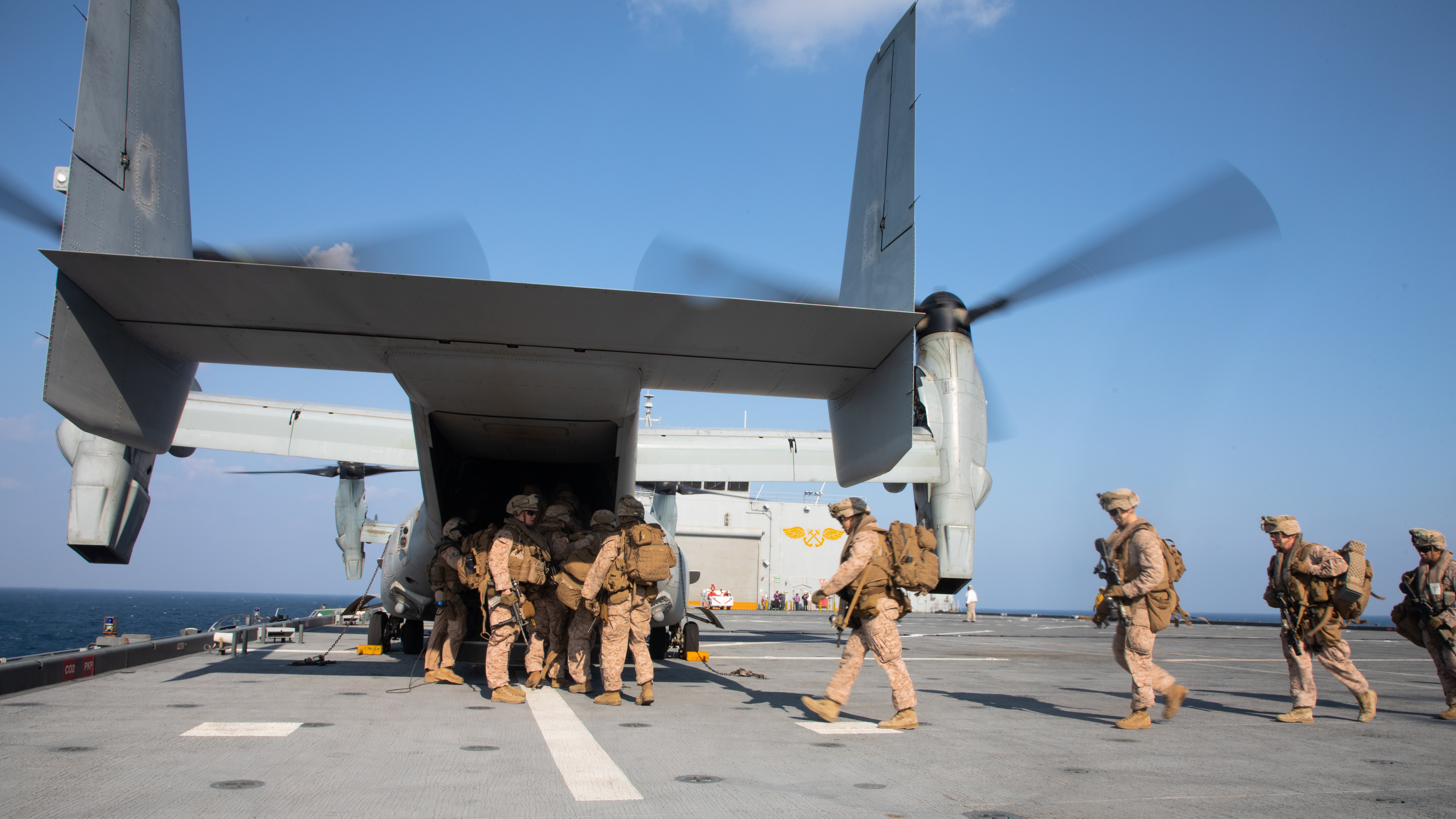 ARABIAN GULF (Dec. 5, 2019) Marines with 2nd Battalion, 7th Marines, assigned to Special Purpose Marine Air-Ground Task Force – Crisis Response – Central Command 19.2 (SPMAGTF-CR-CC), load onto an MV-22 Osprey aboard the expeditionary sea base USS Lewis B. Puller (ESB 3) in the Arabian Gulf, Dec. 5, 2019. SPMAGTF-CR-CC is a quick reaction force, prepared to deploy a variety of capabilities across the region. (U.S. Marine Corps photo by Sgt. Kyle C. Talbot/Released) 191205-M-ZX256-1175